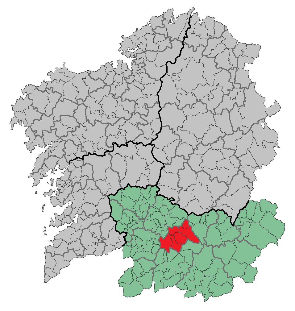 Region of Galicia (Spain) Based in: Image:Location of Betanzos.png Source: Designed by Leoplus. Original picture, designed by Caiser over a work made by Alyssalover.